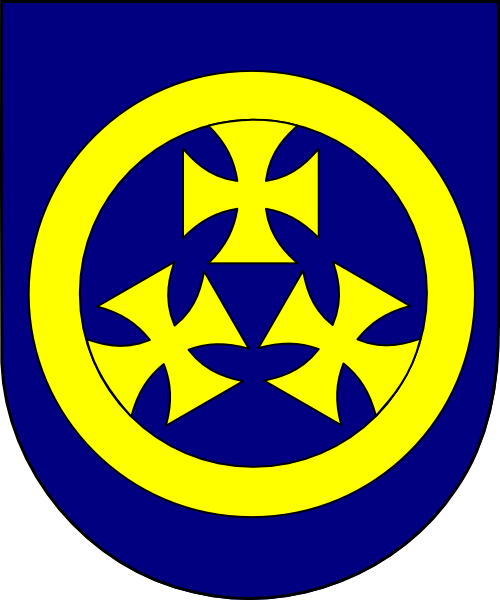 Coat of arms (shield only) of Mieczysław cardinal Halka-Ledóchowski, archbishop of Gniezno - Poznań, Poland (1866 - 1896).